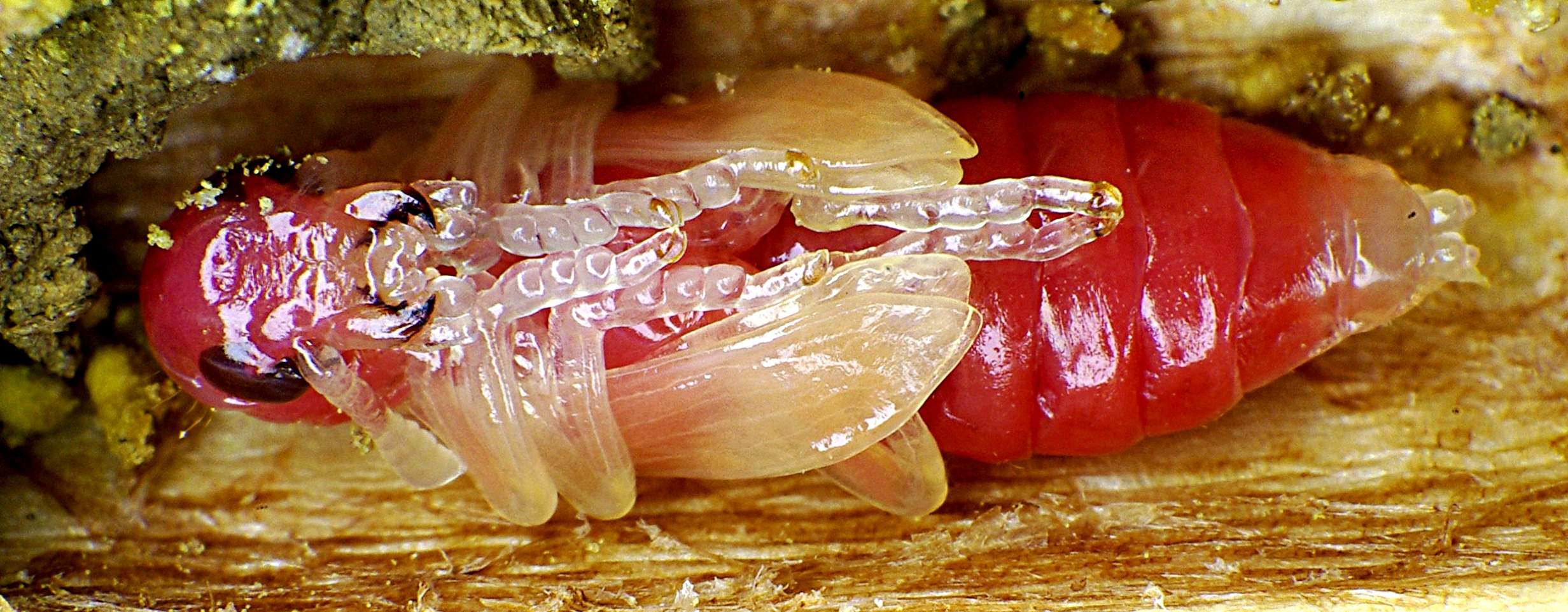 Beginning of the coulouring of pupa of Trichodes apiarius